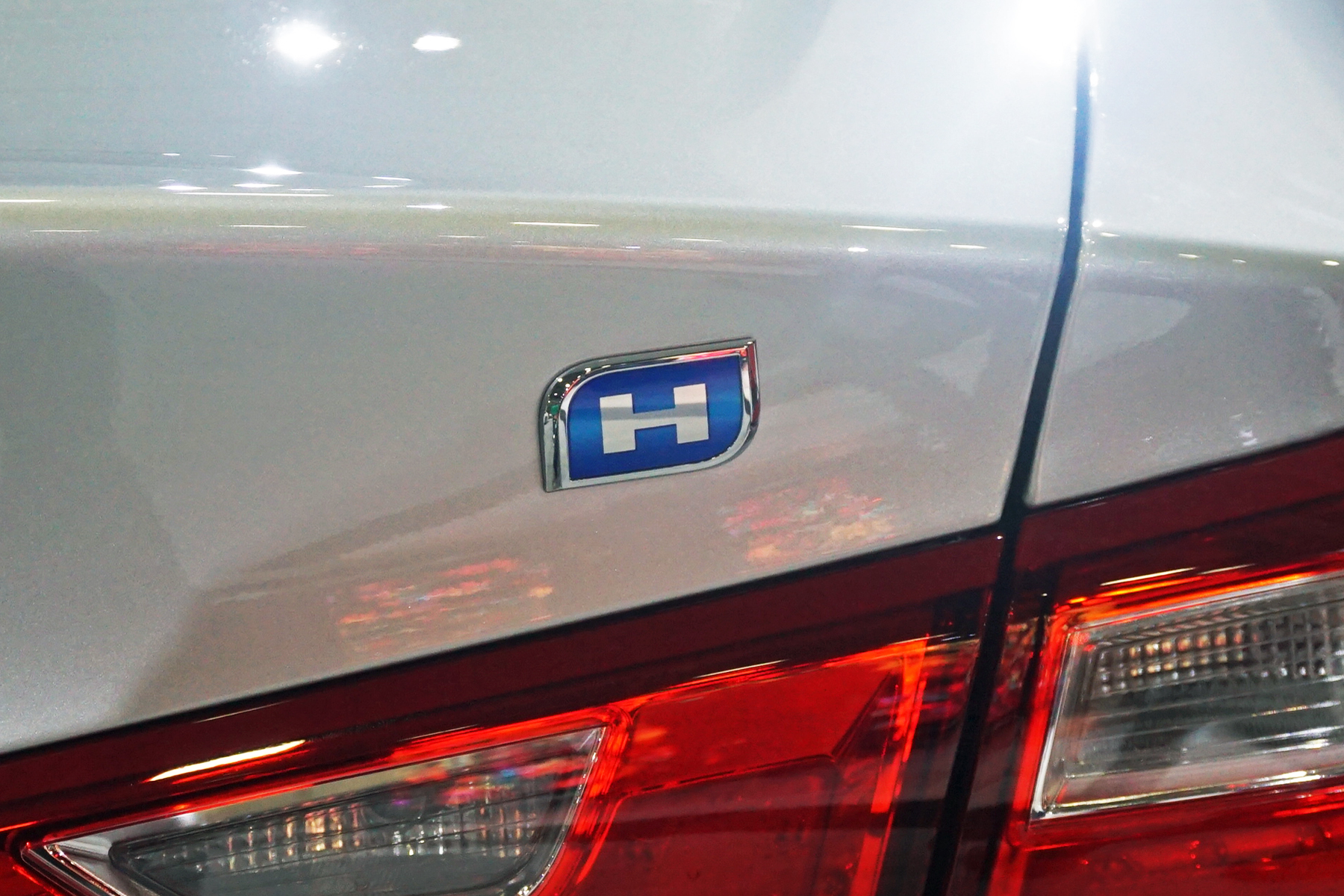 Chevrolet hybrid badge (2017 Chevrolet Malibu Hybrid). 2017 Washington Auto Show, DC, US